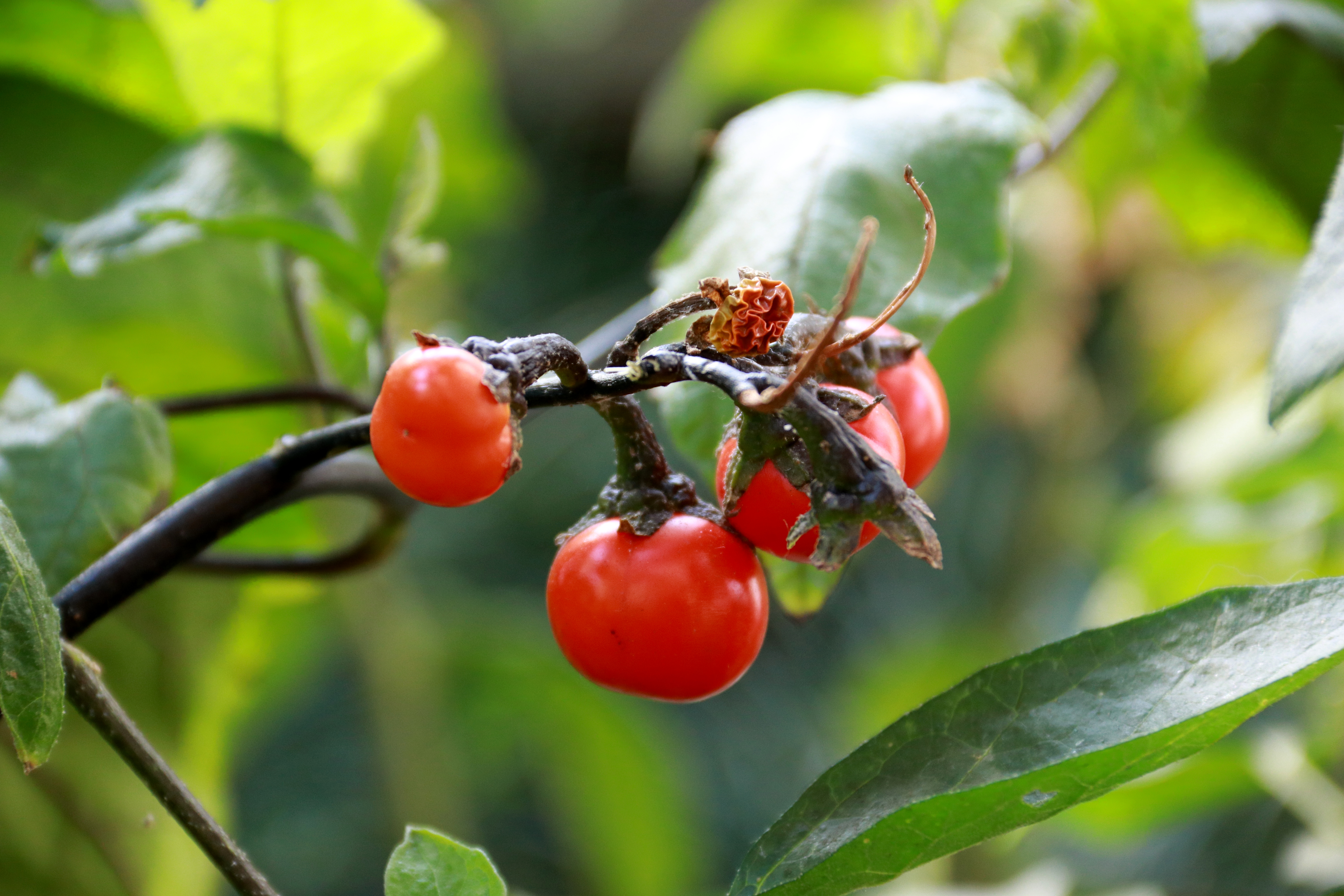 Solanum uporo Dunal, also categorized as Solanum viride, picture taken at the zoological-botanical garden Wilhelma, Stuttgart, Germany